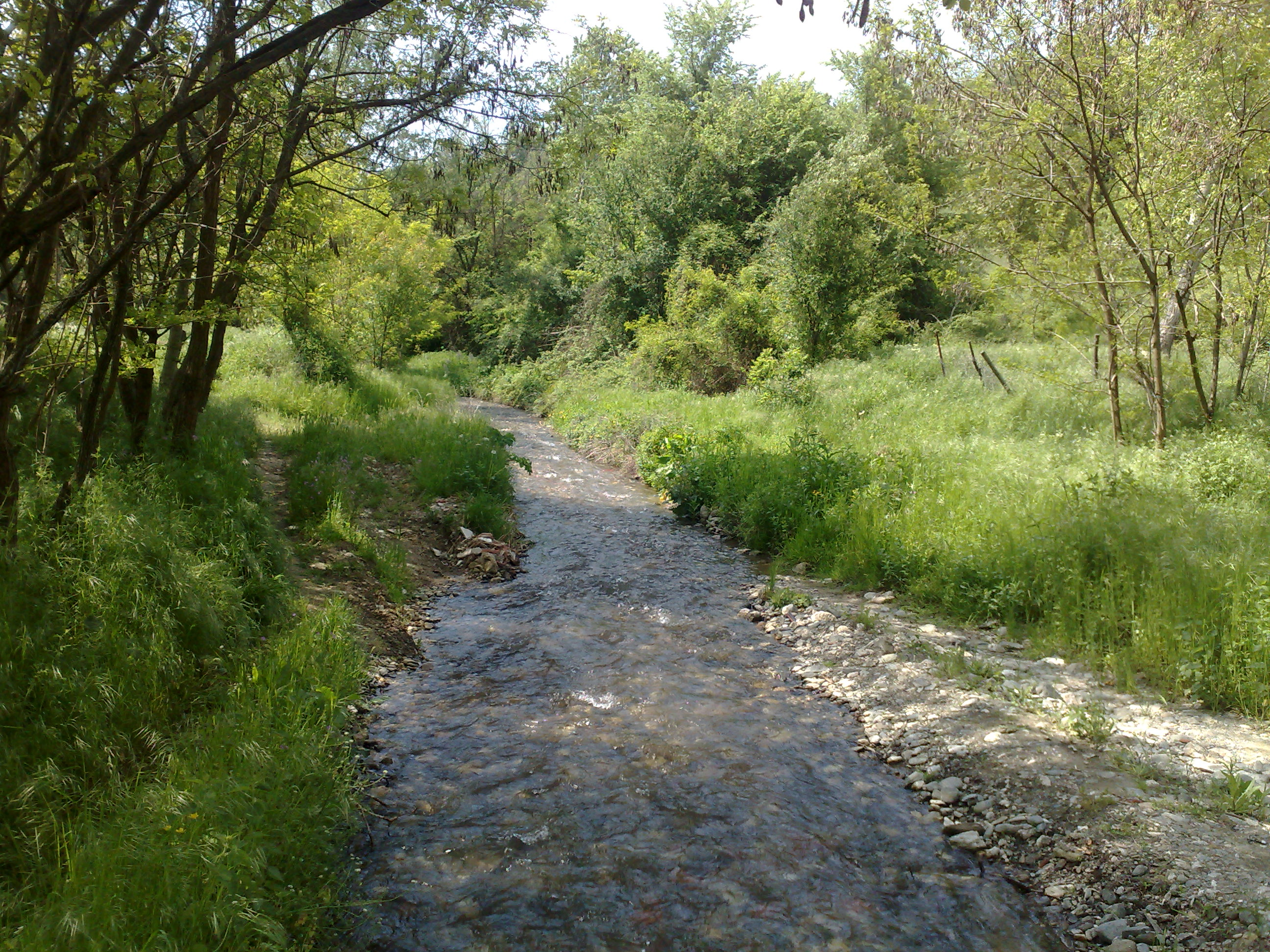 River Serava in Macedonia